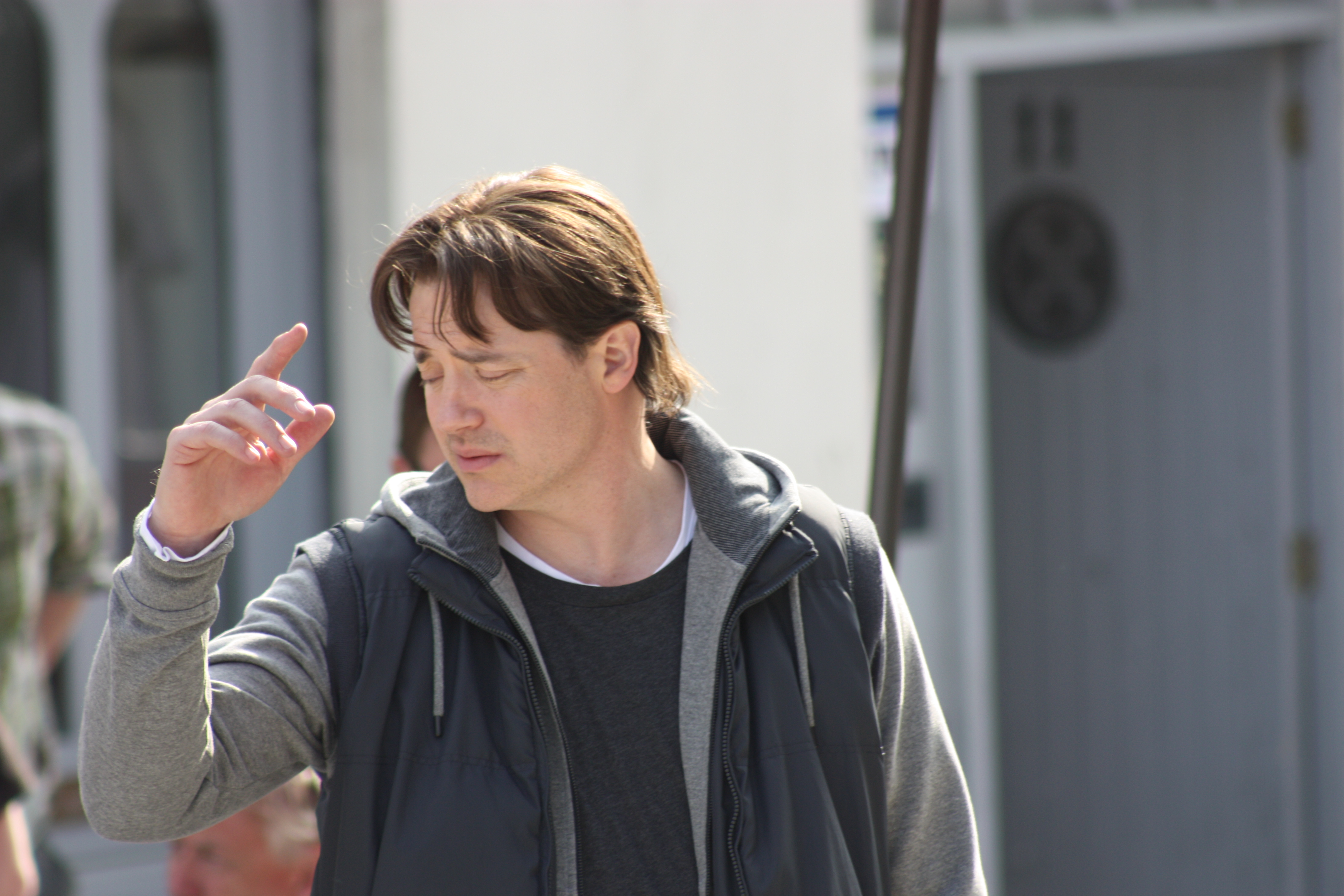 Brendan Fraser on set of Whole Lotta Sole (2011, directed by Terry George), Scotch Street, Downpatrick, County Down, Northern Ireland, April 2011